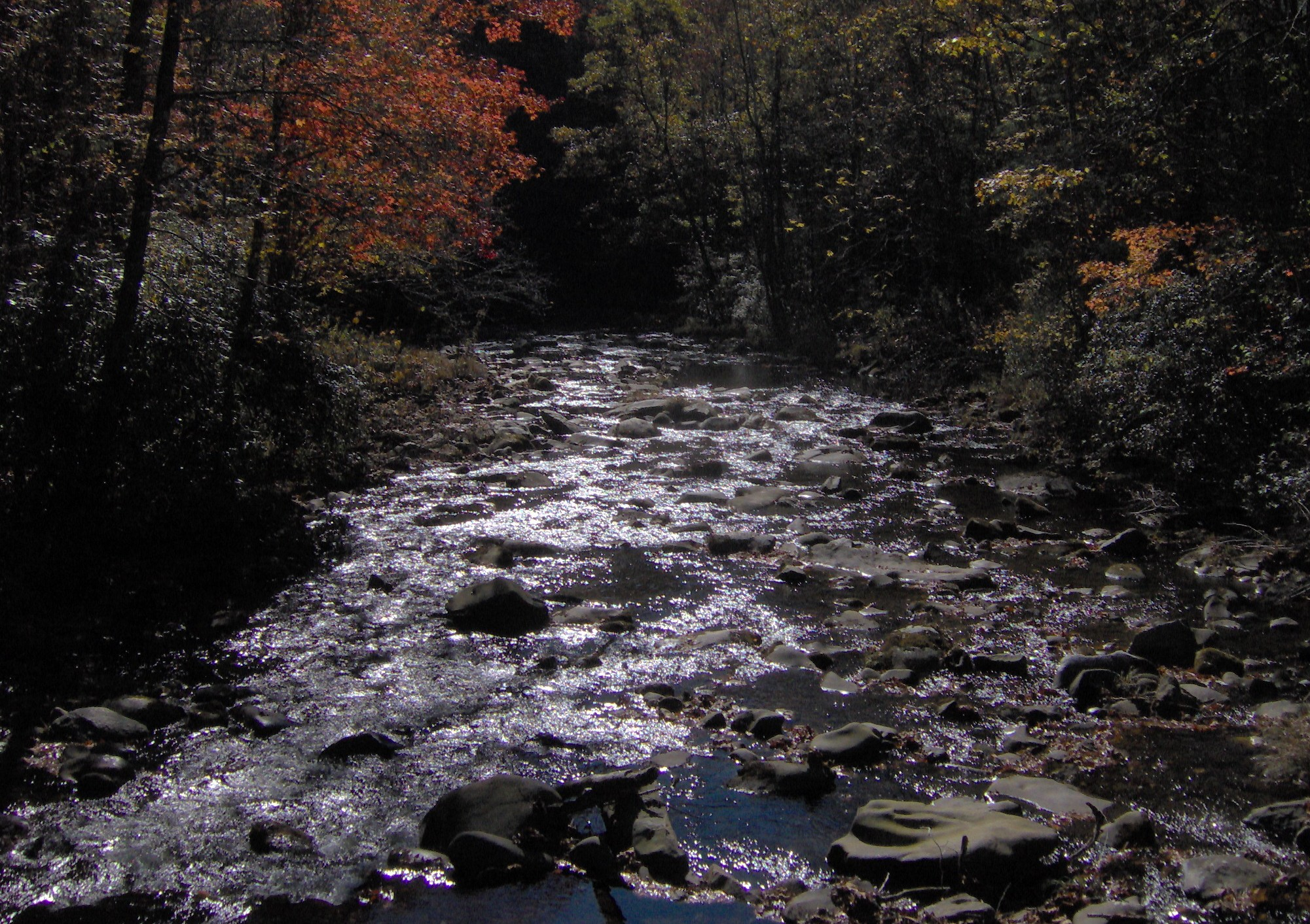 Hazel Creek in the Great Smoky Mountains of North Carolina, located in the Southeastern United States. This leg of the creek is part of a bend in the creek east of Proctor known as "the Horseshoe."